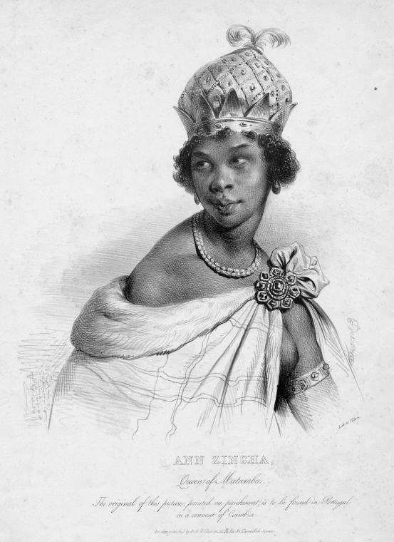 Ann Zingha, queen of Matamba